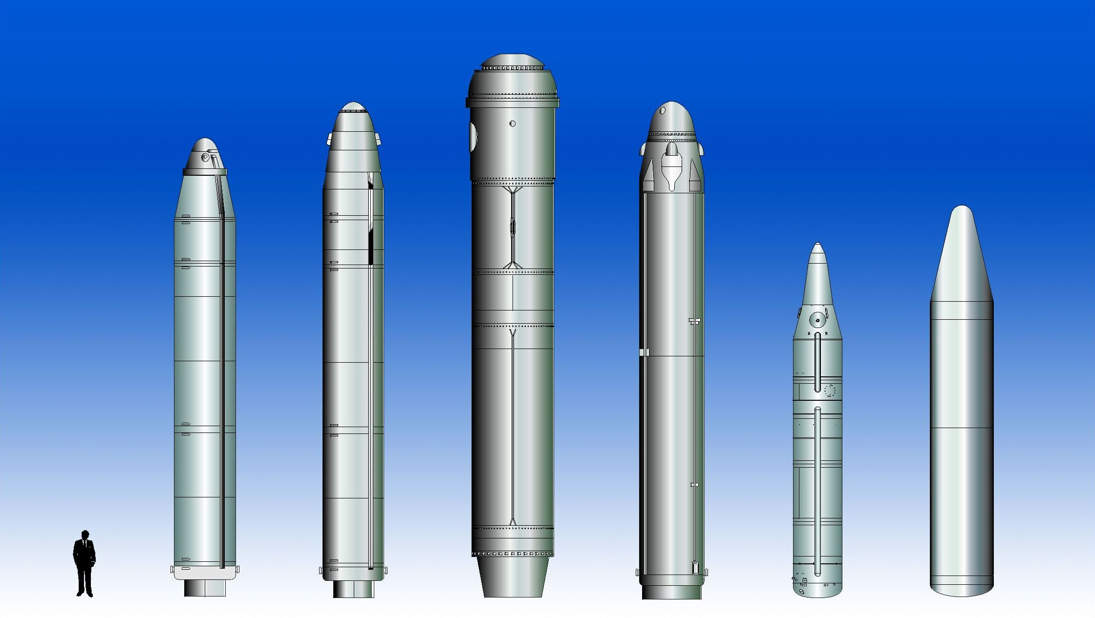 SLBM (Submarine Launched Ballistic Missiles) Comparison. From left to right: SS-N-8 (USSR) SS-N-18 (USSR) SS-N-20 (USSR) SS-N-23 (USSR) CSS-NX-3 (China) JL-2 (China)